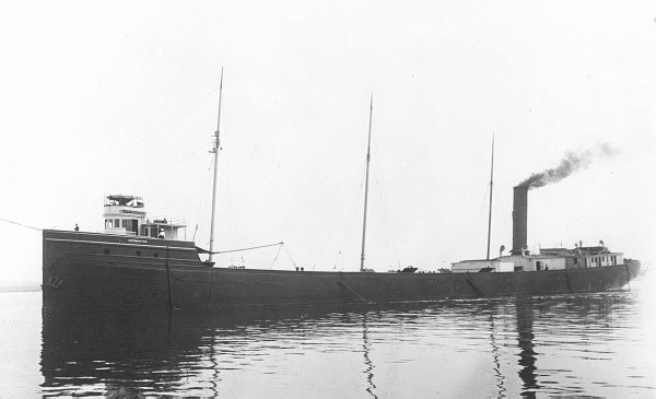 The SS Appomattox bulk cargo steamship. It was built in 1896, and carried iron ore and coal on the Great Lakes. It ran aground and sank off Shorewood, Wisconsin, in 1905.